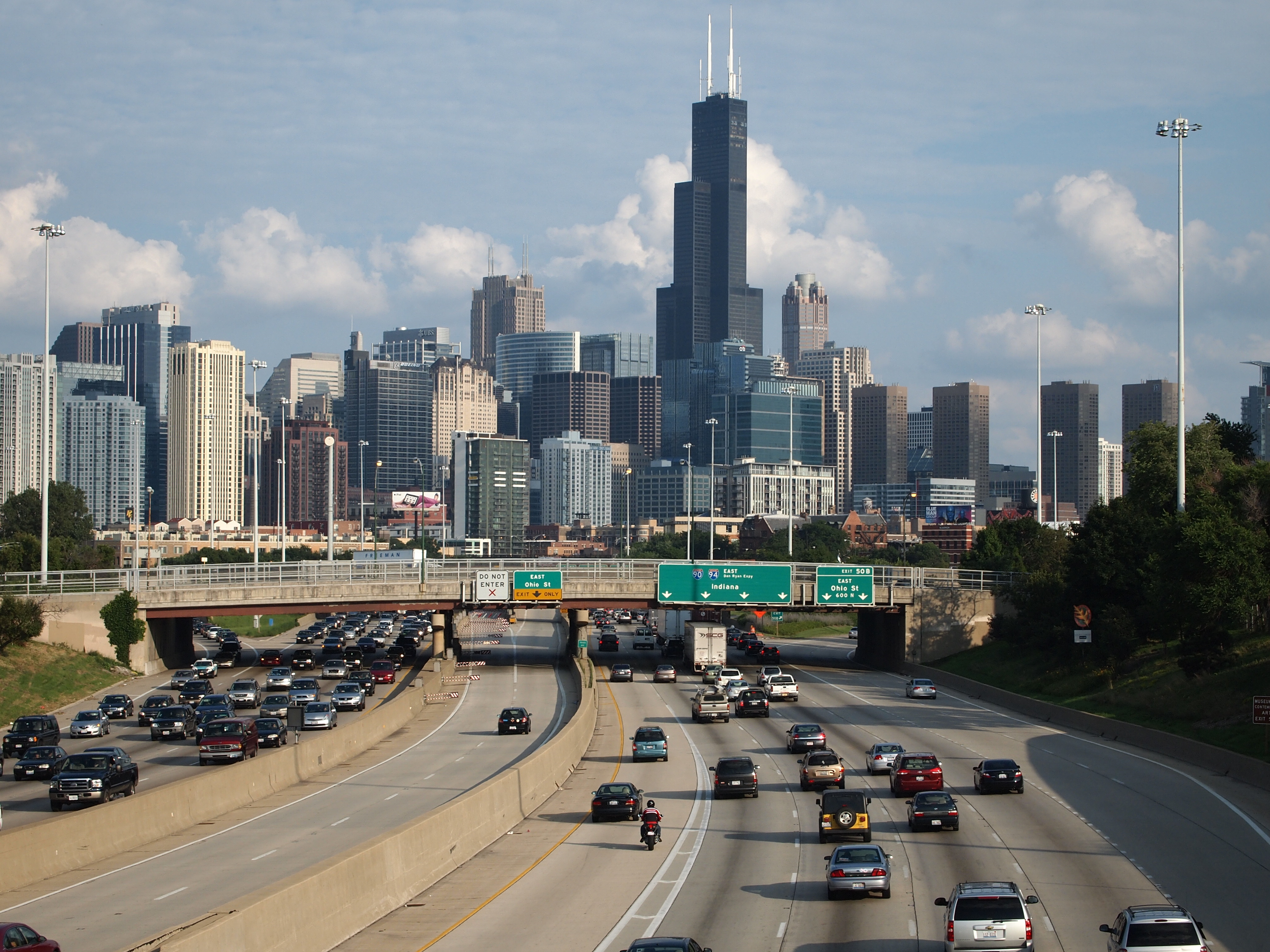 One of my favorite views of the skyline.